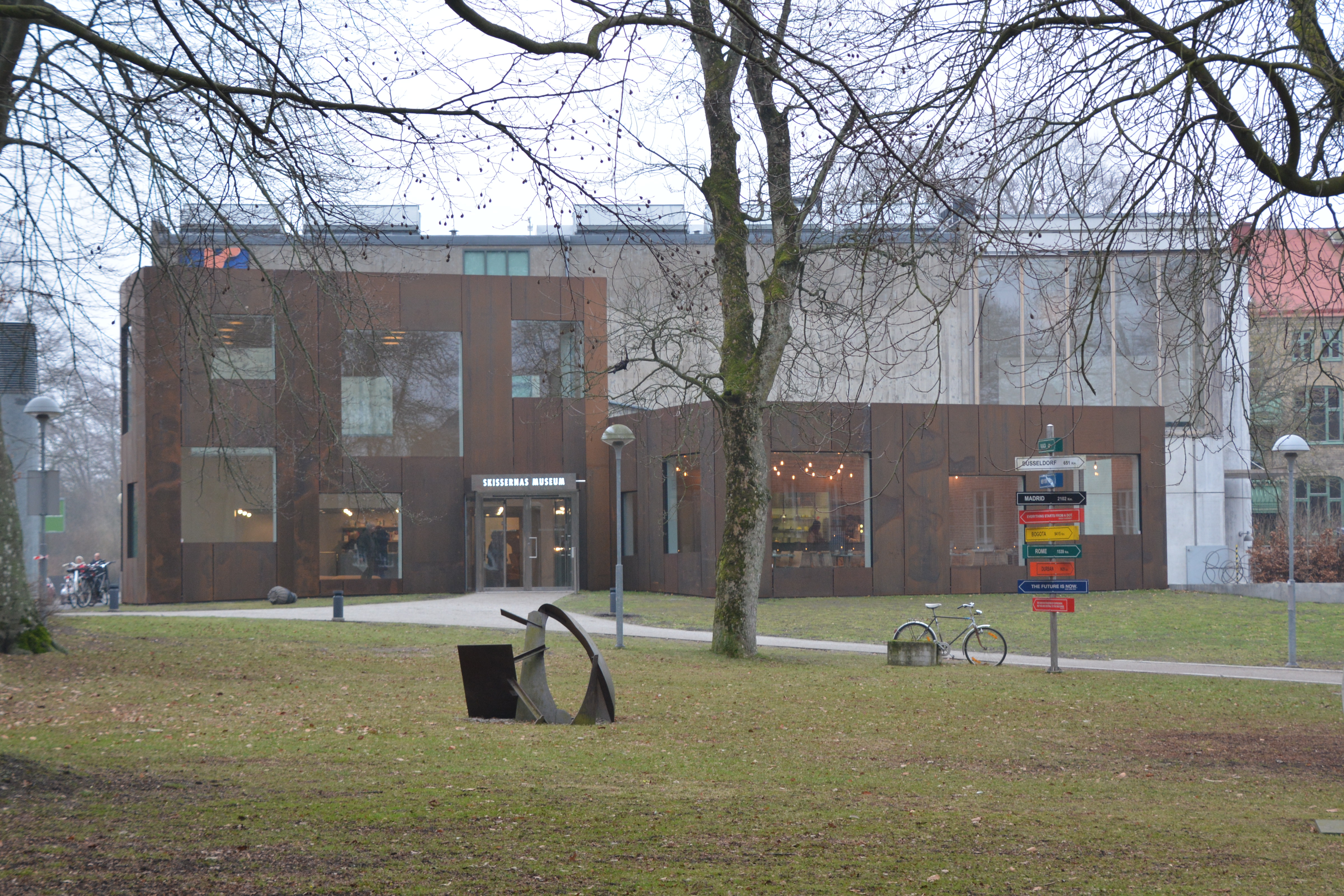 Skissernas museums nya entré 2017